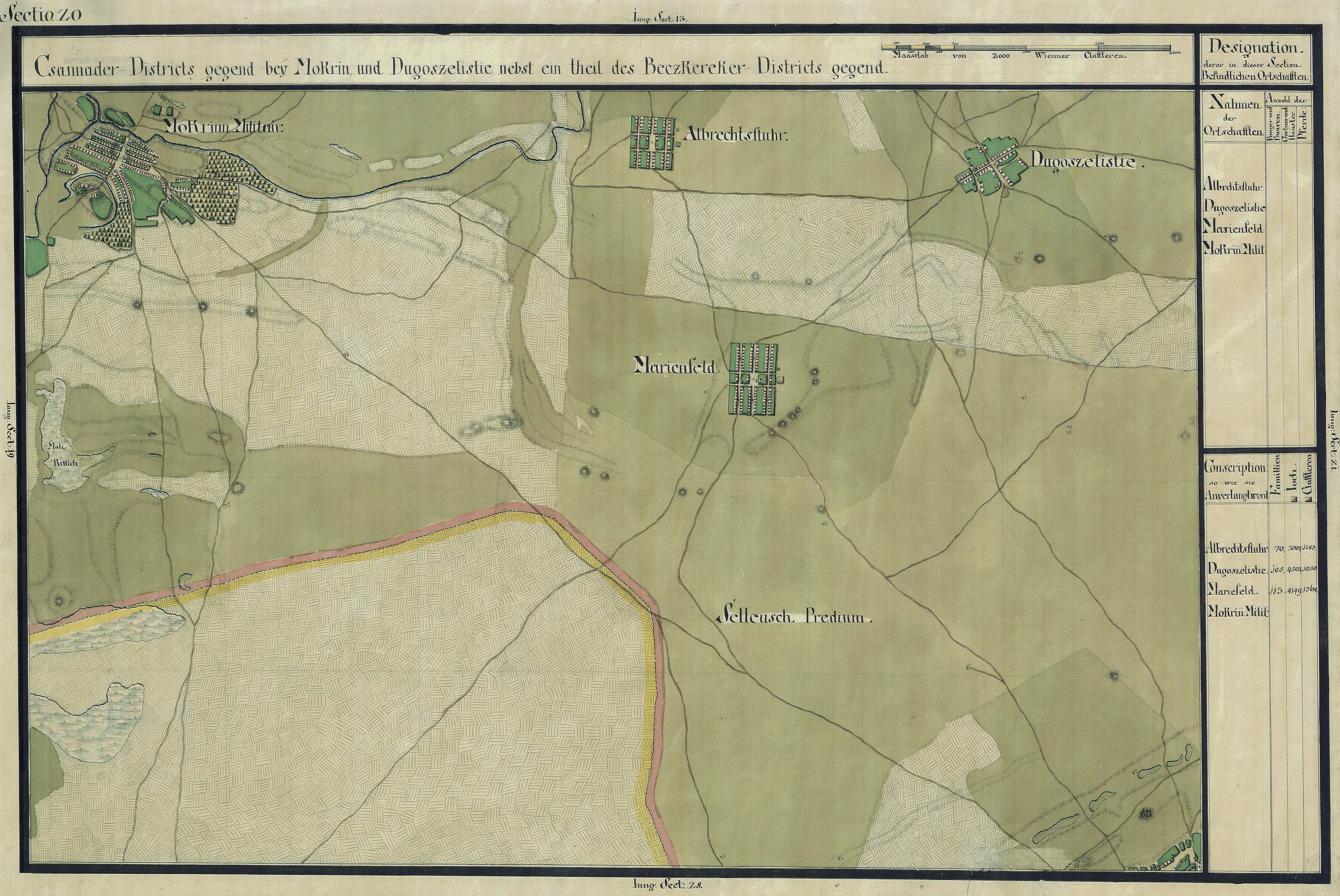 The Banat region in the cadastral maps: Josephinische Landesaufnahme, 1769-72. Josephinische Landaufnahme pg020